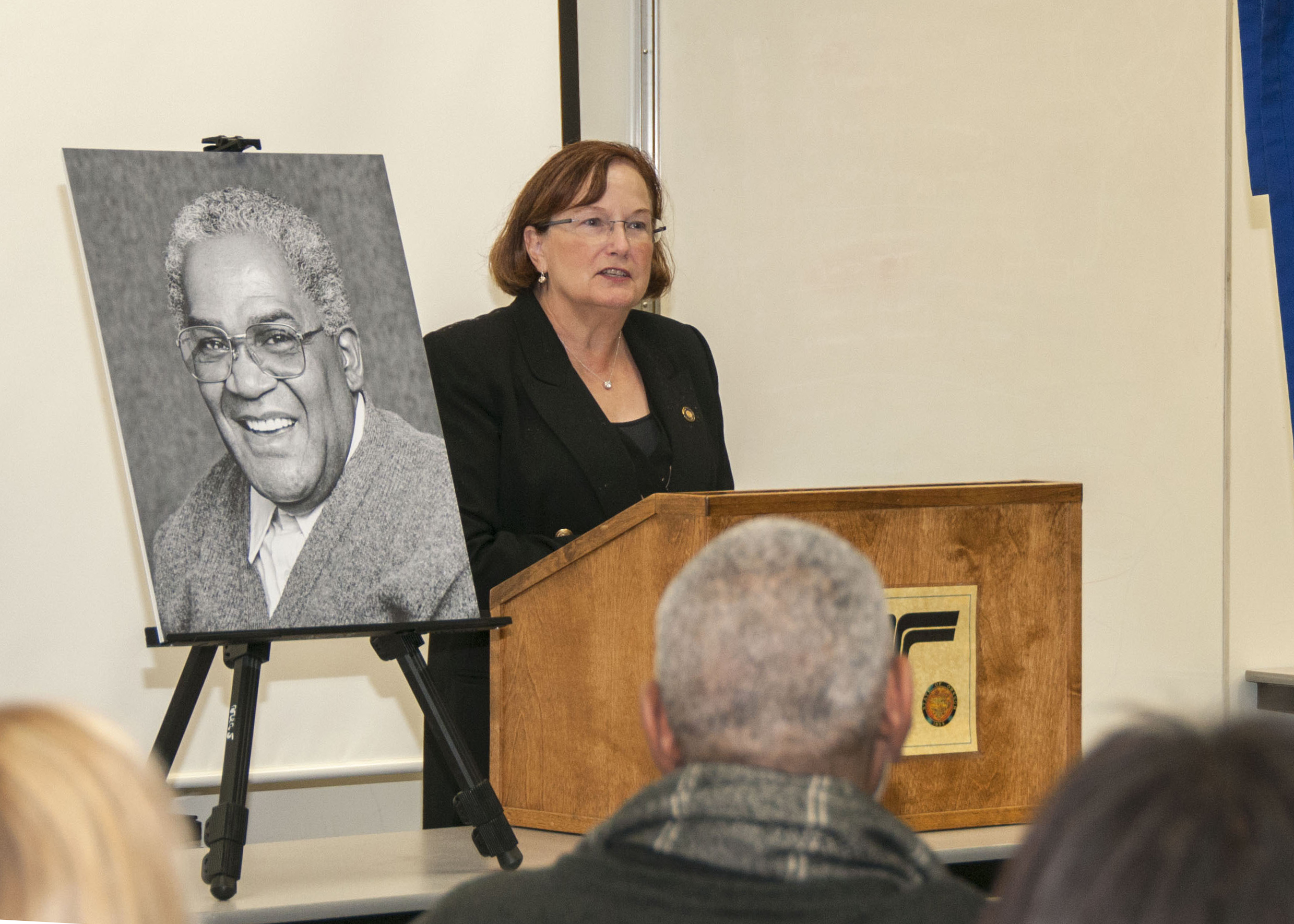 Rep. Betty Komp speaks at the dedication ceremony. Komp sponsored the bill to name the highway in Tebeau's honor.